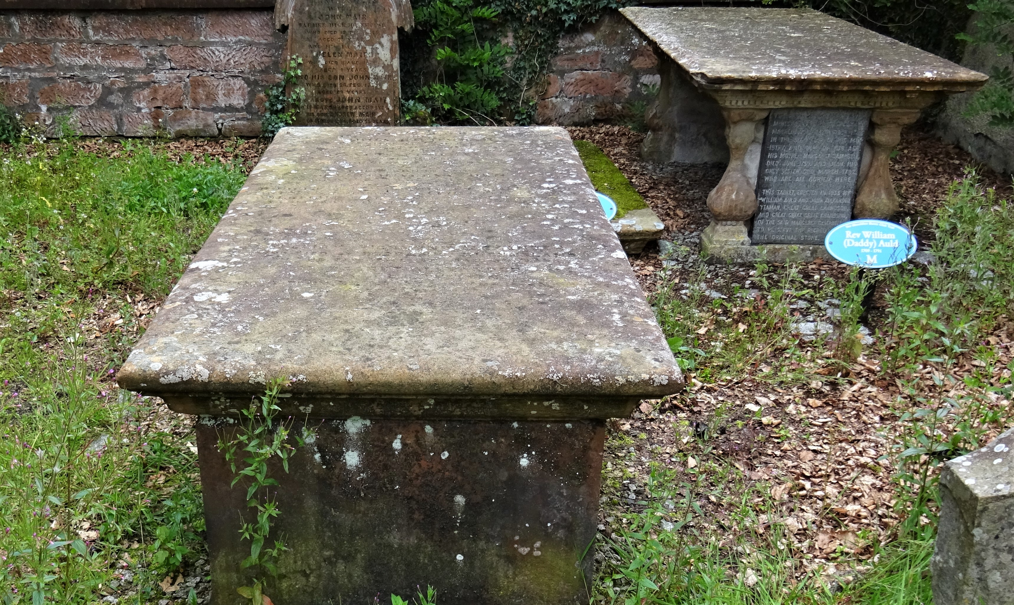 .The John Richmond's memorial, Mauchline churchyard, East Ayrshire. A Mauchline lawyer and close friend of Robert Burns.